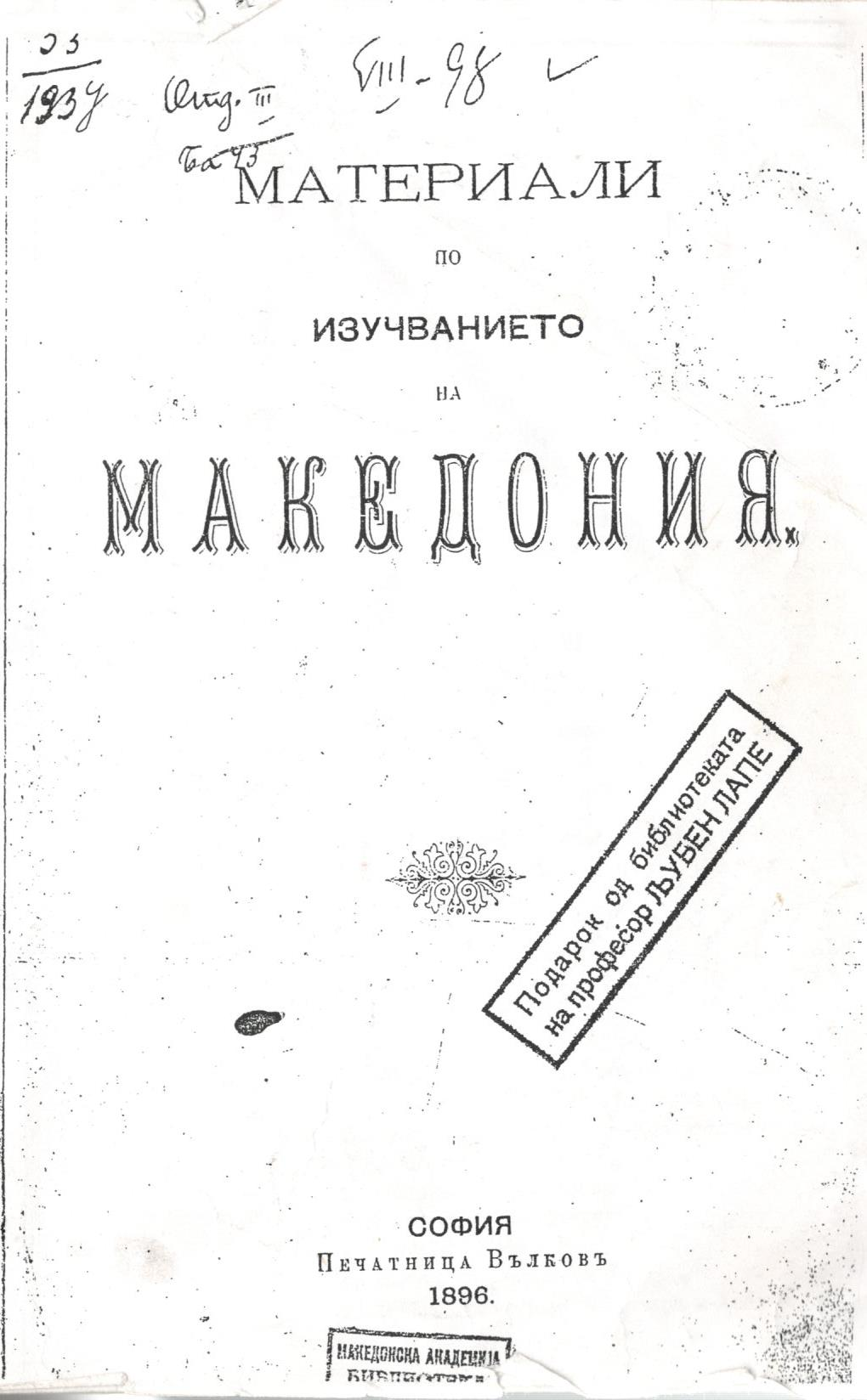 Cover of the book of materials for the study of Macedonia written by Gjorce Petrov in 1896